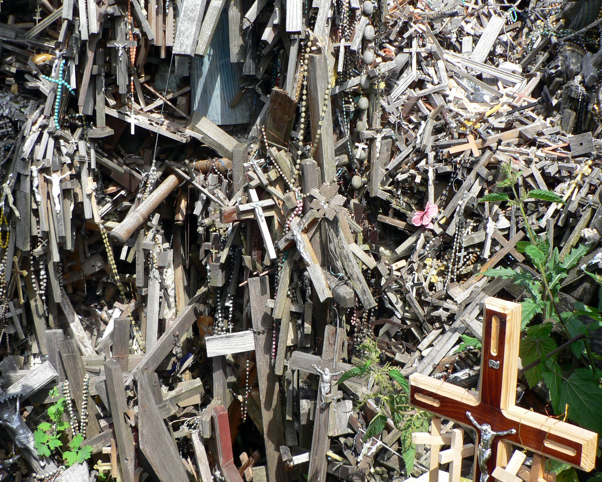 Hill of Crosses near Šiauliai, Lithuania